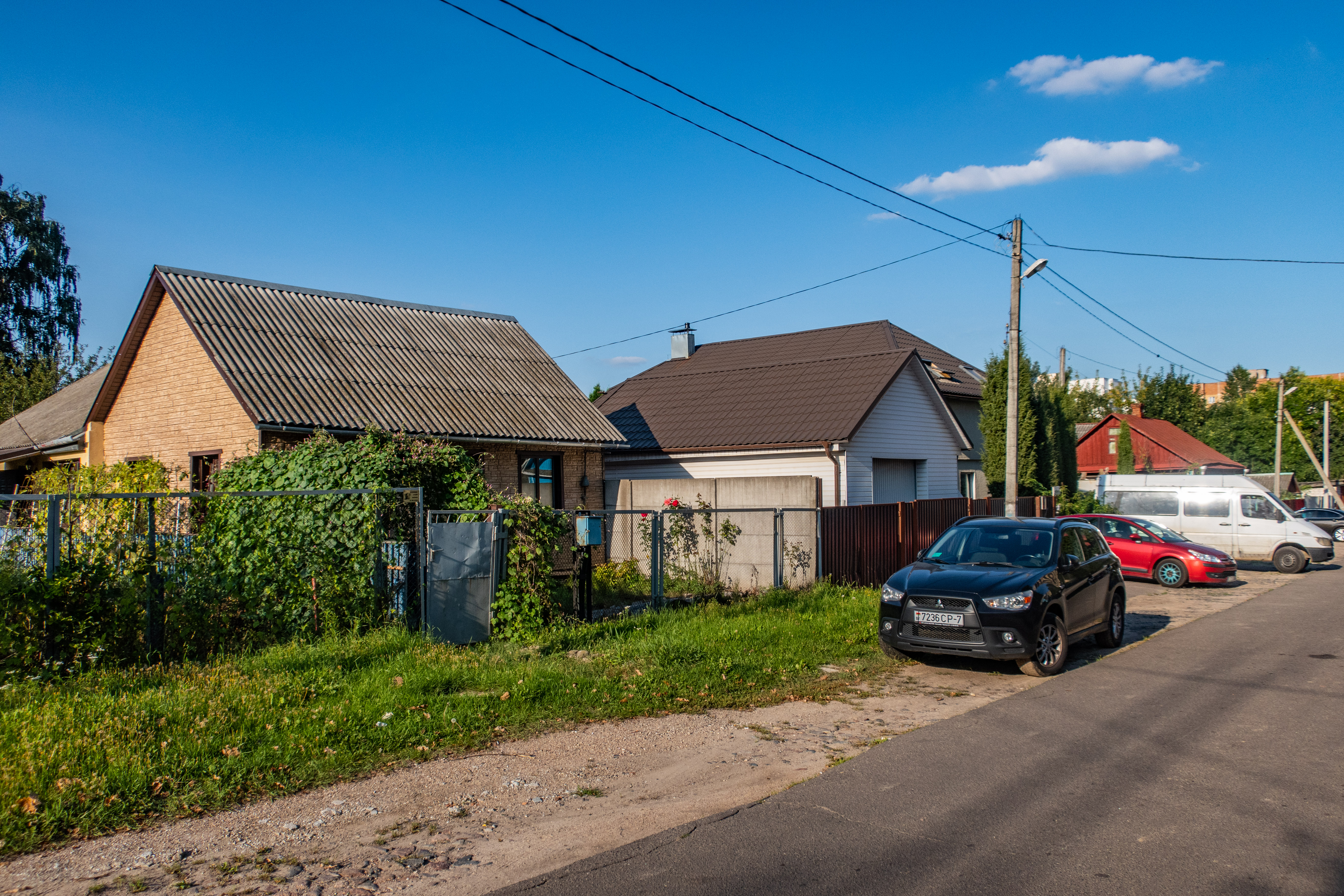 Kozyrava (Kozyrevo), former suburb of Minsk (Belarus)